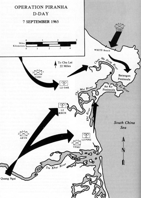 Map of Operation Piranha, Batangan Peninsula, Quang Ngai Province, South Vietnam, 7 September 1965